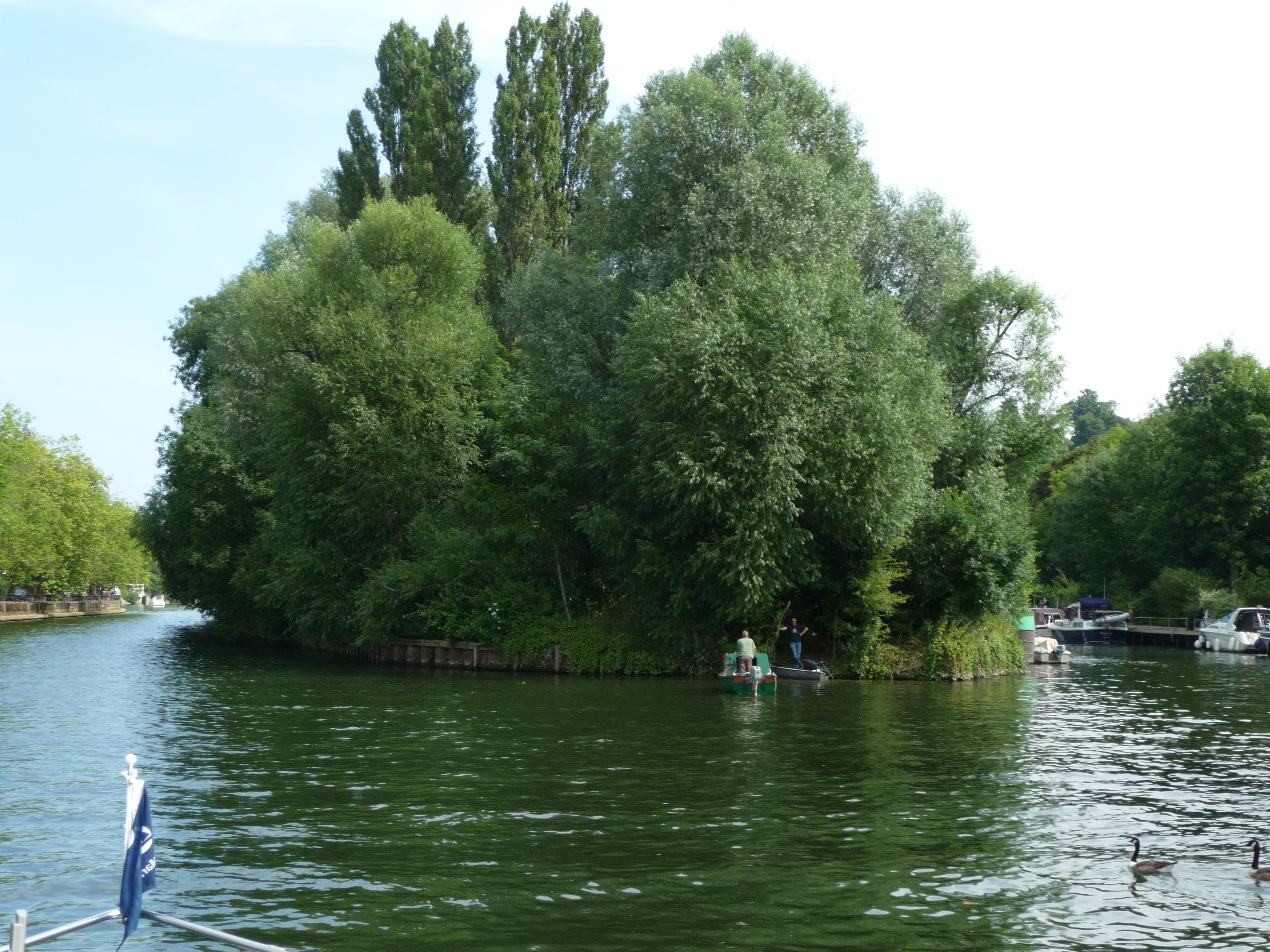 Grass Eyot on the River Thames at Maidenhead looking upstream. Grass Eyot is just below Boulter's Lock